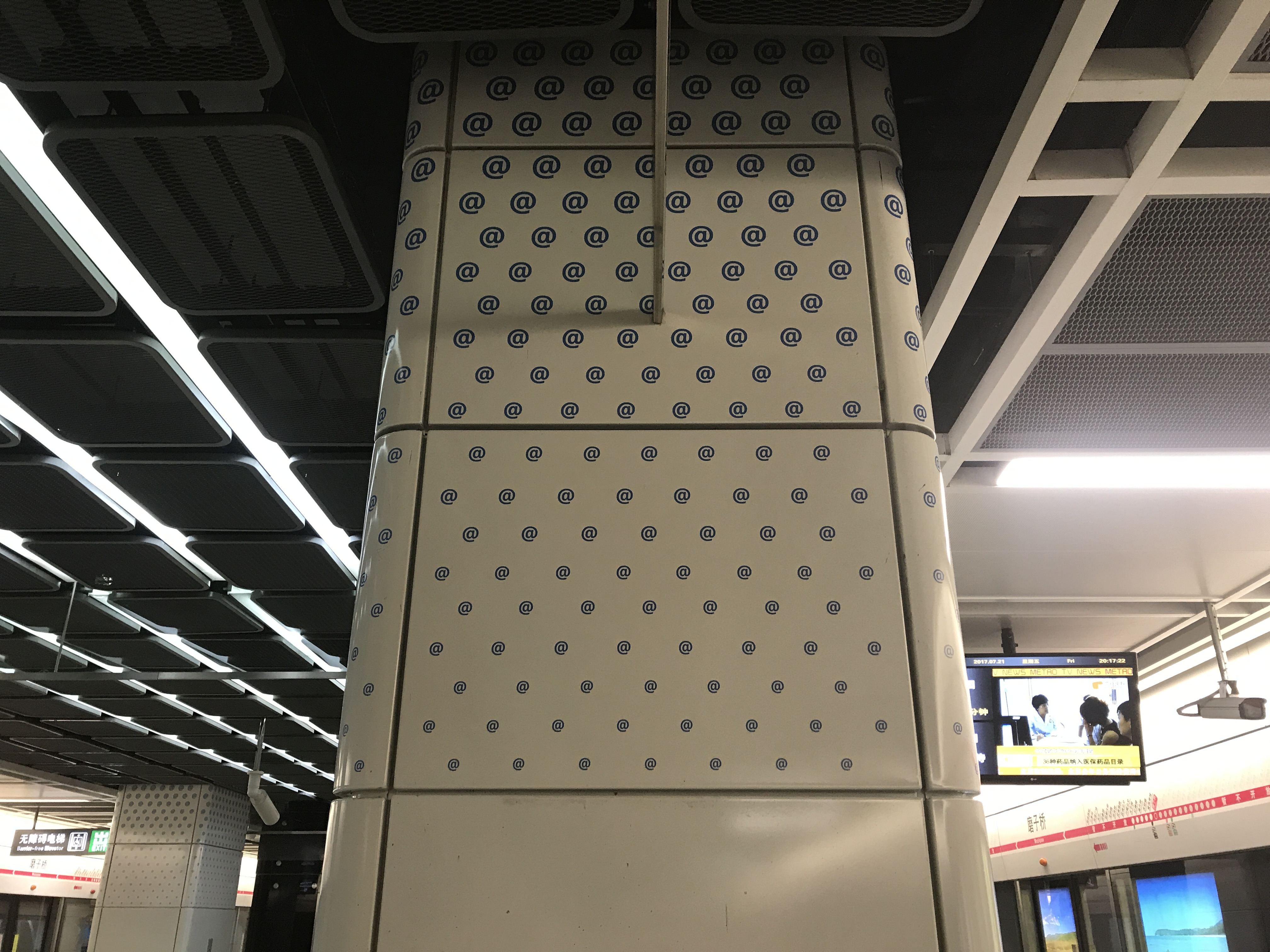 Platform of Moziqiao Station, Chengdu Metro